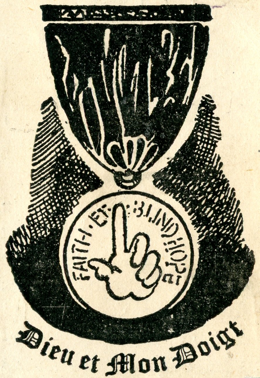 Most Highly Derogatory Order of the Irremovable Finger. WW2 British Empire air forces joke award for major foul ups.